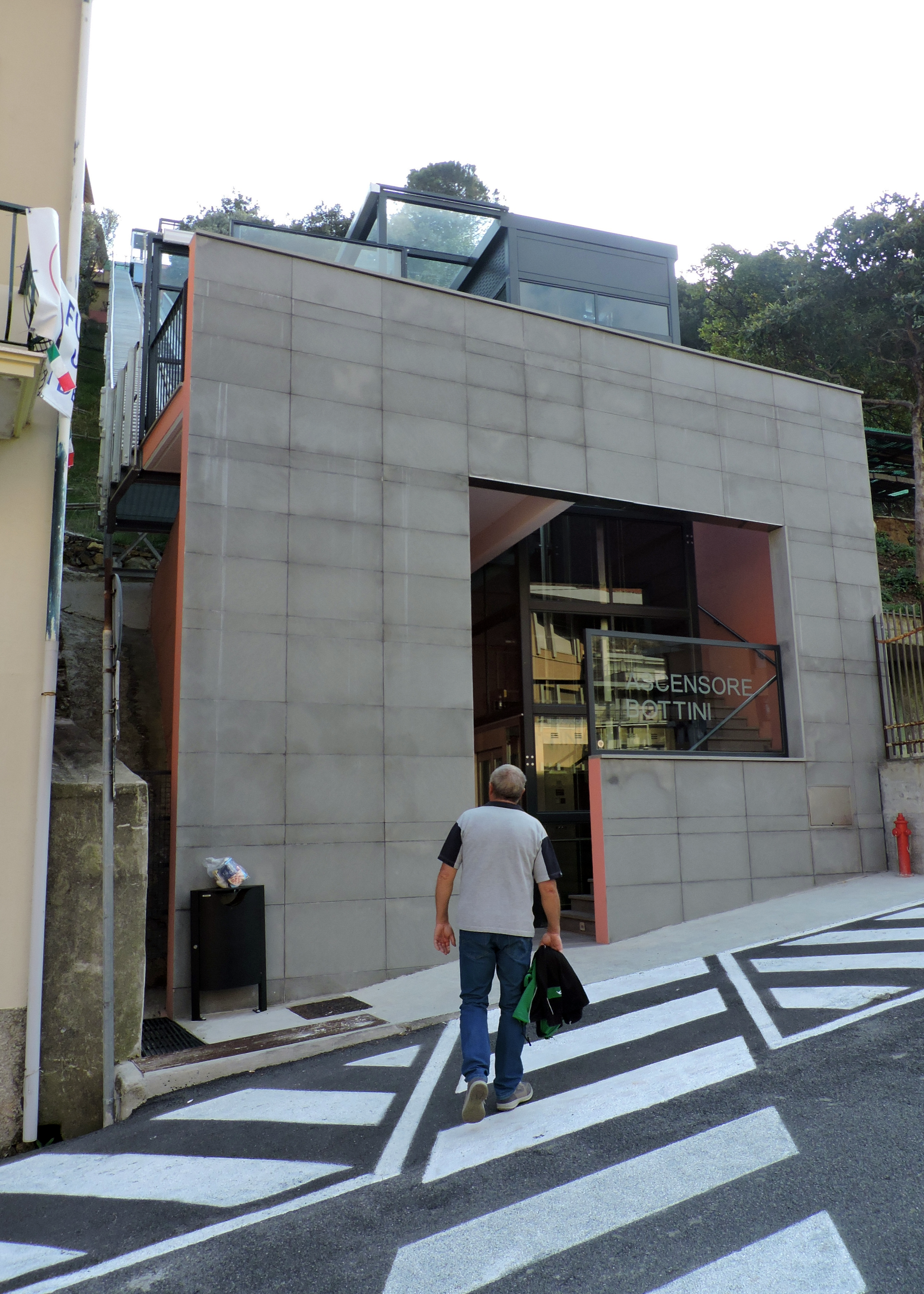 Funicolare dei Bottini (Celle Ligure, SV, Italy)